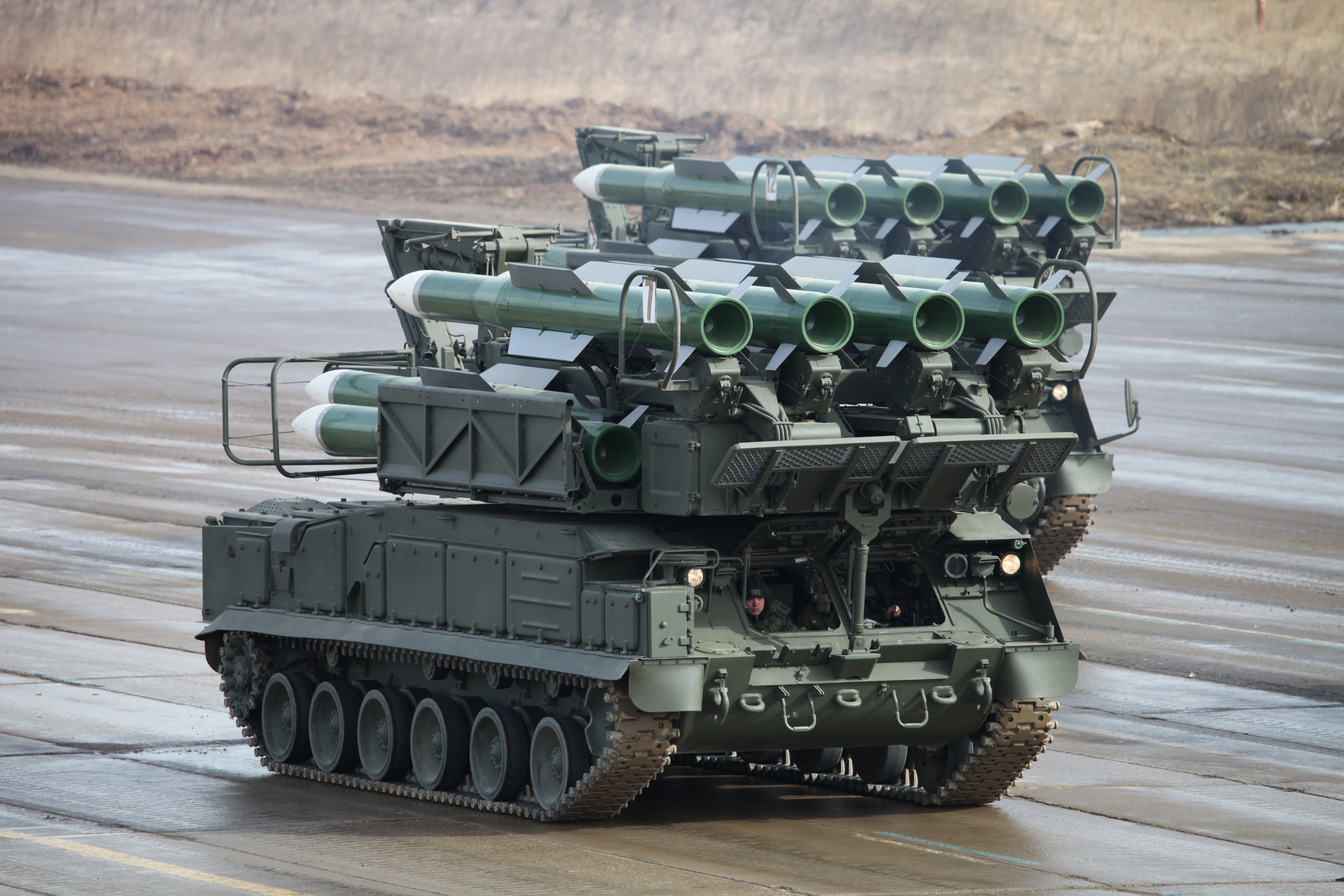 9A316 transporter erector launcher and transloader for Buk-M2 air defence system